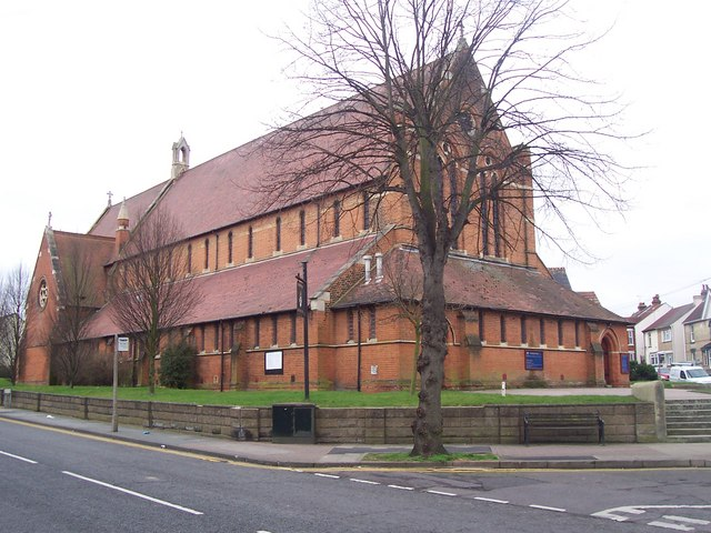 St. Barnabas' Church On junction of Nelson Road (on left) and Seaview Road (on right). Road behind church, on right is Stopford Road.